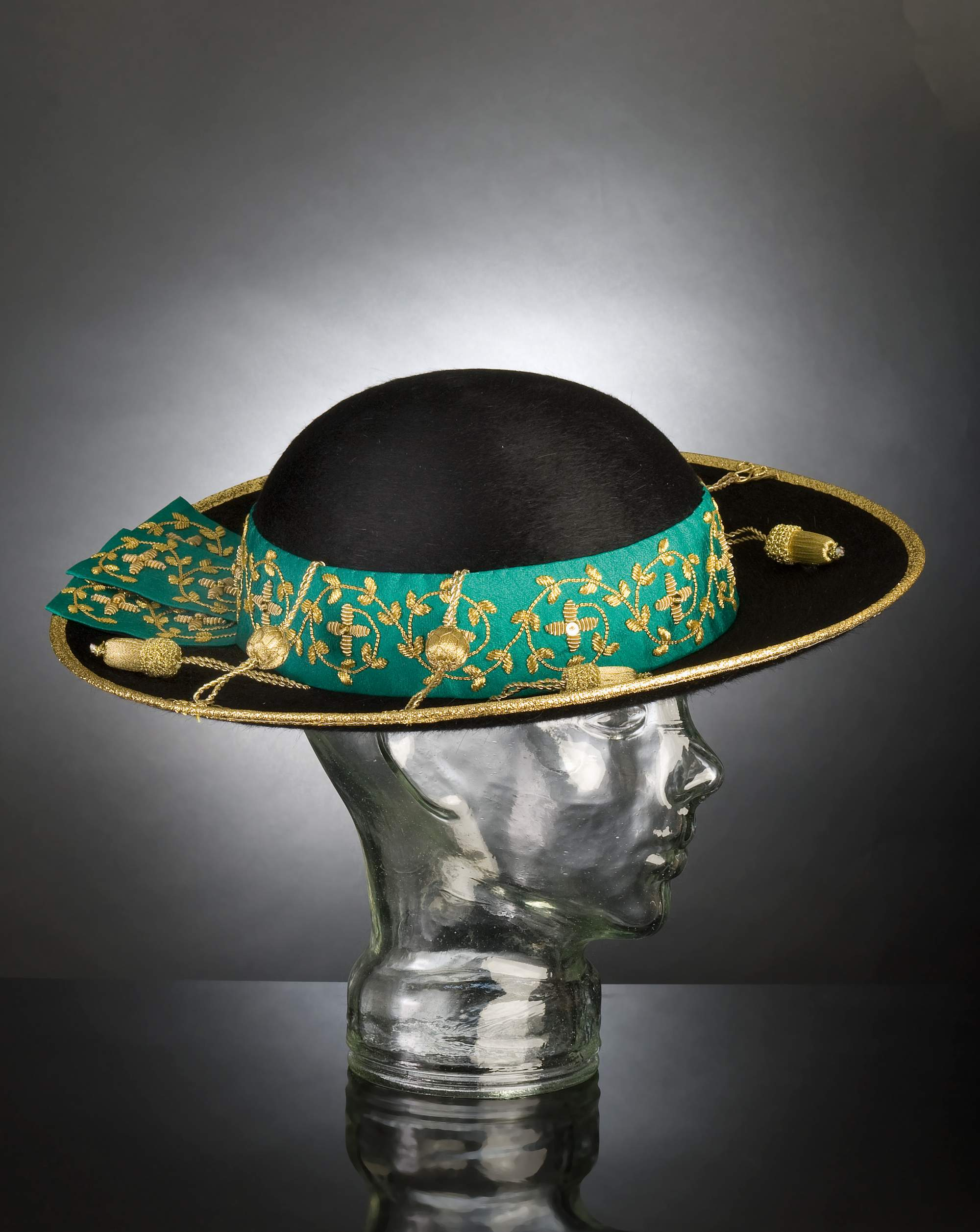 Saturno, Cappello Romano worn by an archbishop